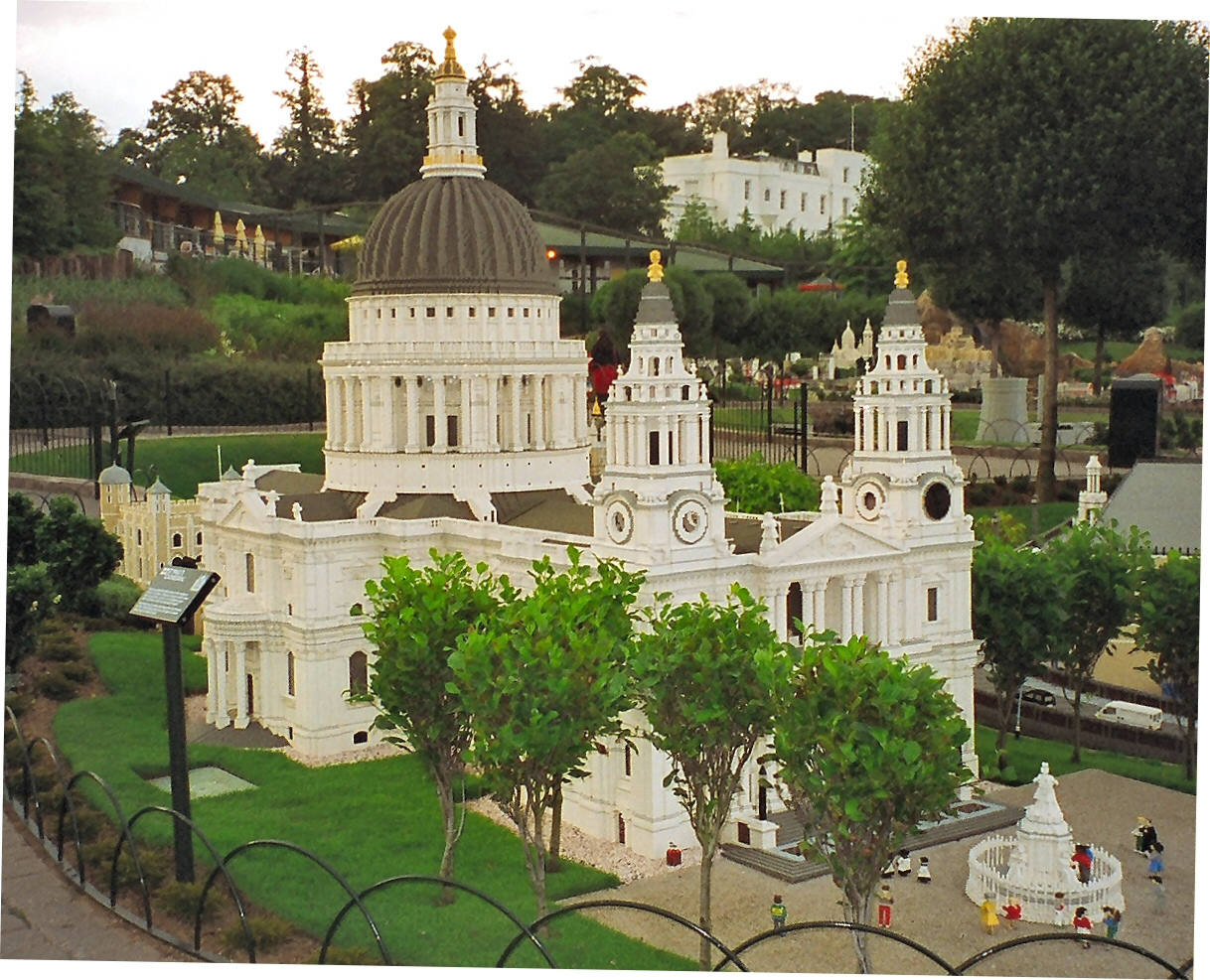 Photo by Paddy Briggs